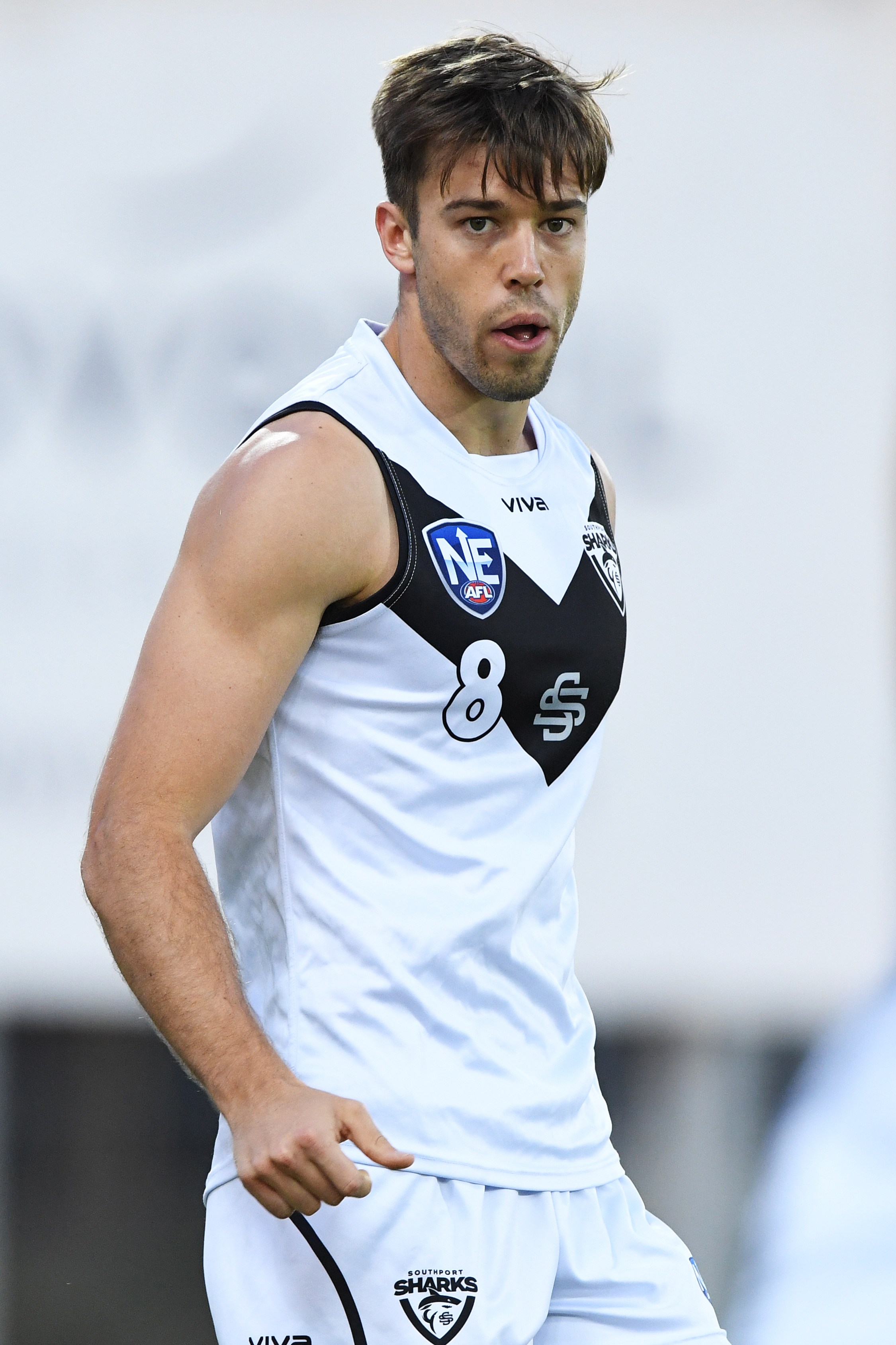 Seb Tape of Southport during the 2018 NEAFL round 20 match between NT Thunder and Southport at TIO Stadium on 18 August 2018 in Darwin, Northern Territory.